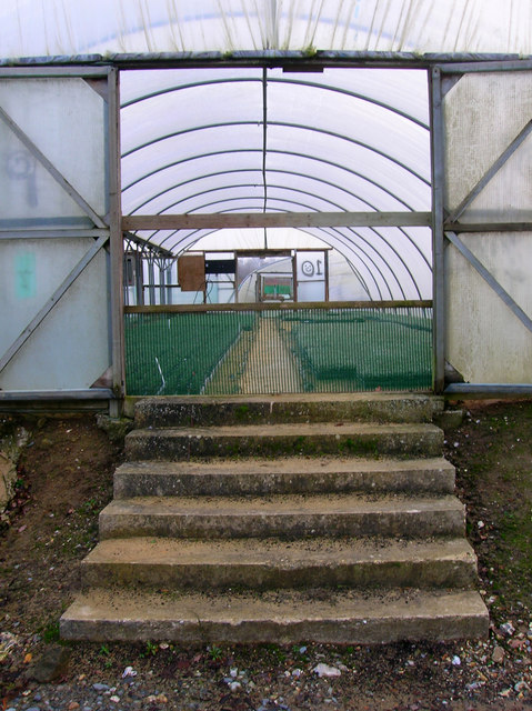 New Place Nurseries in Pulborough, West Sussex, England – Peeking inside one of their greenhouses from the bridleway.